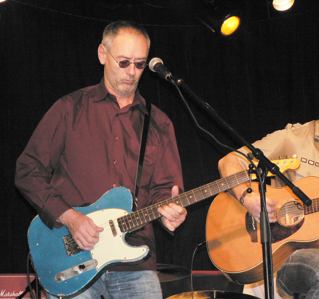 Michael Jones, singer and guitarist, playing at l'Archipel in Paris